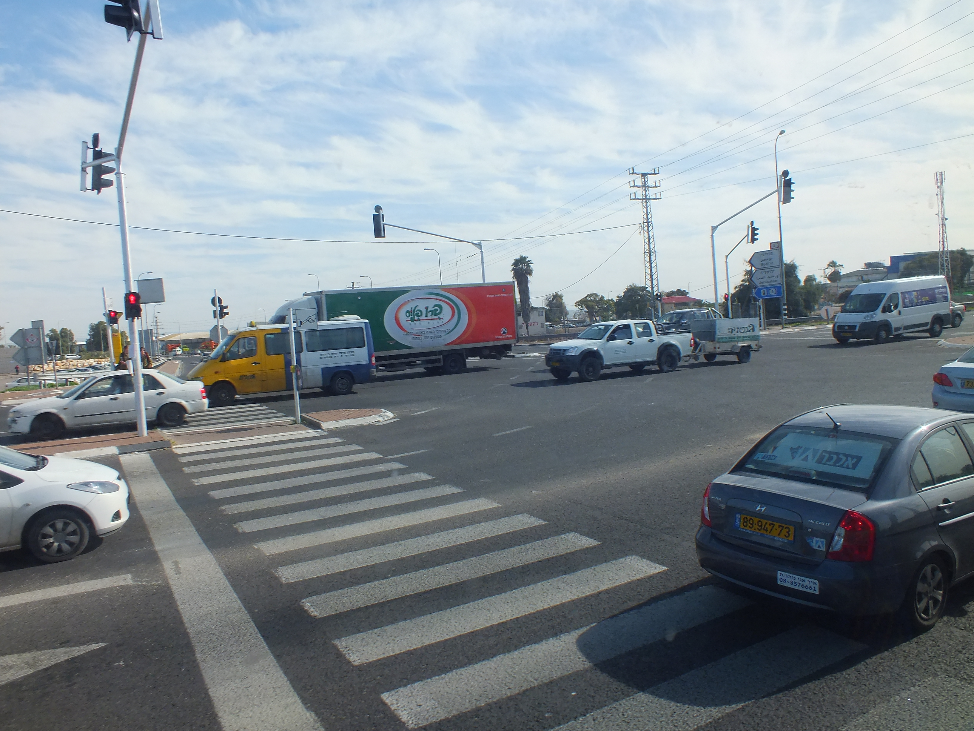 Masmiya Junction, where Roads 3 and 40 in the heart of Israel join.